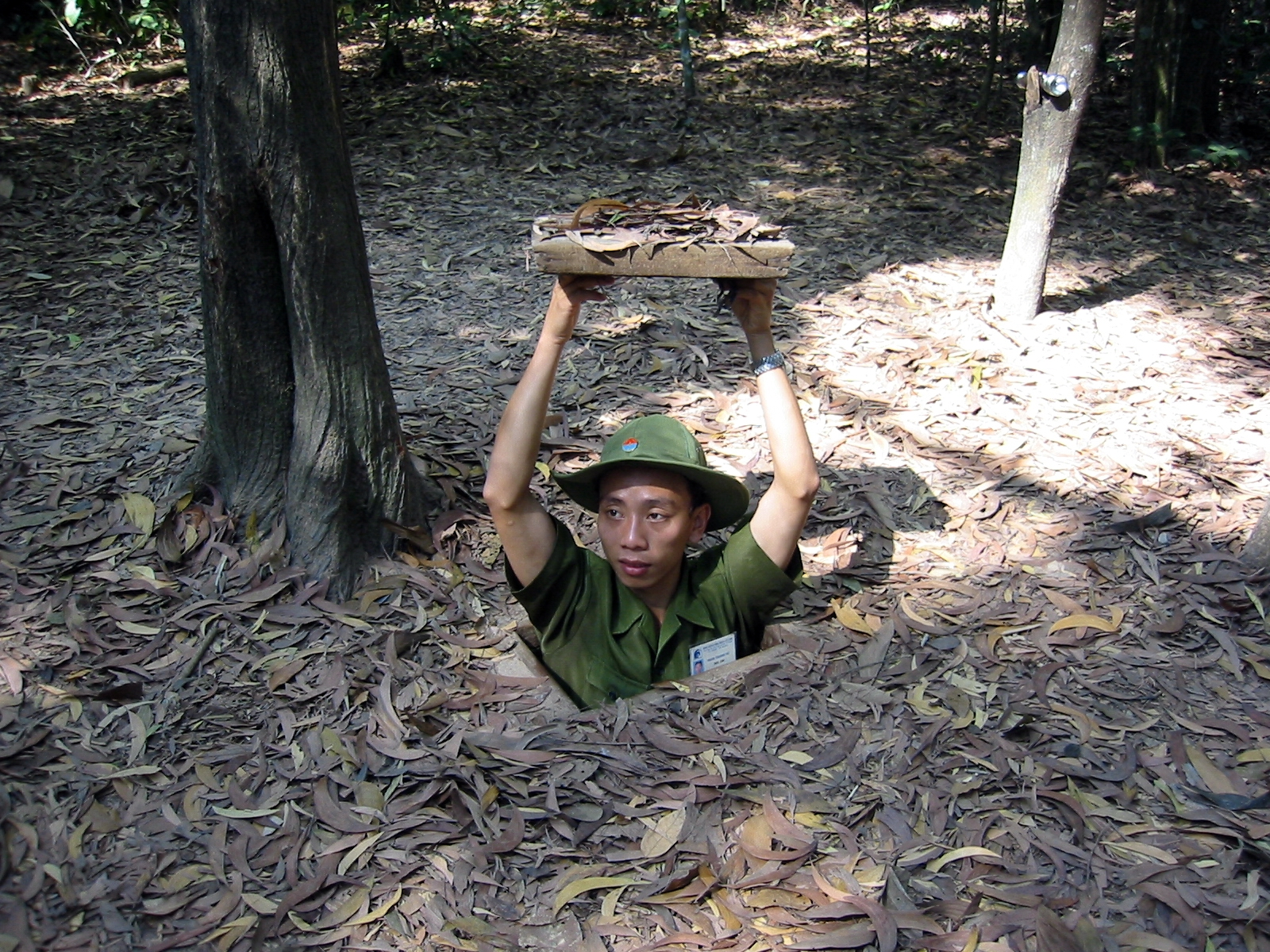 Củ Chi tunnels – a soldier demonstrating an entry. Cu Chi, Vietnam